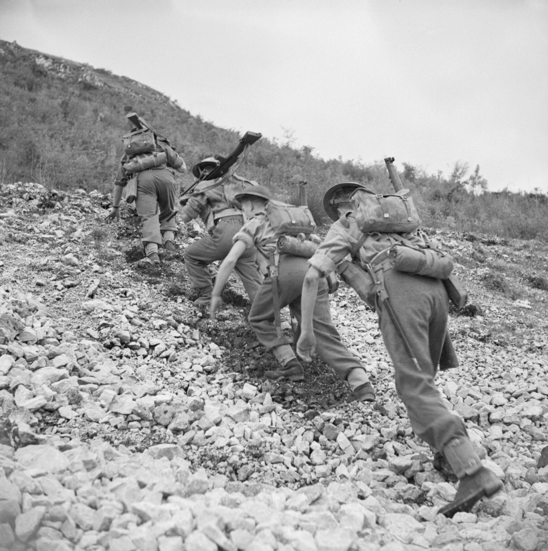 The British Army in Italy 1943 Men of the 1st King's Own Yorkshire Light Infantry climb a steep slope, 5 November 1943.